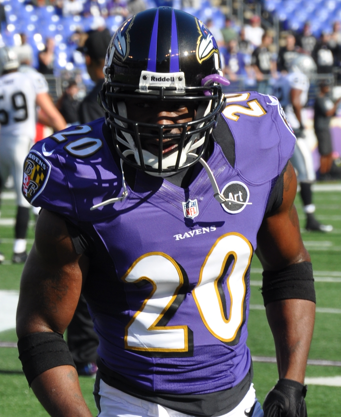 Baltimore Ravens safety, Ed Reed, playing against the Oakland Raiders on November 11, 2012.